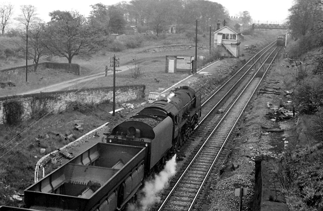 Site of Beamish Station. View eastwards, towards Tyne Dock (via Pelaw) and Newcastle (via Birtley), former Stanhope & Tyne (Pontop & South Shields) Railway. Beamish station was closed to passengers 21/9/53 (goods, 2/8/60); the passenger service Blackhill - Birtley - Newcastle ceased 23/5/55. The photograph shows a BR 9F 2-10-0 returning down the steep incline through Beamish on iron-ore empties returning from Consett to Tyne Dock, a traffic that continued until 1974.